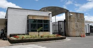 American Embassy in Bogota.JPG Embajada de Estados Unidos en Bogotá